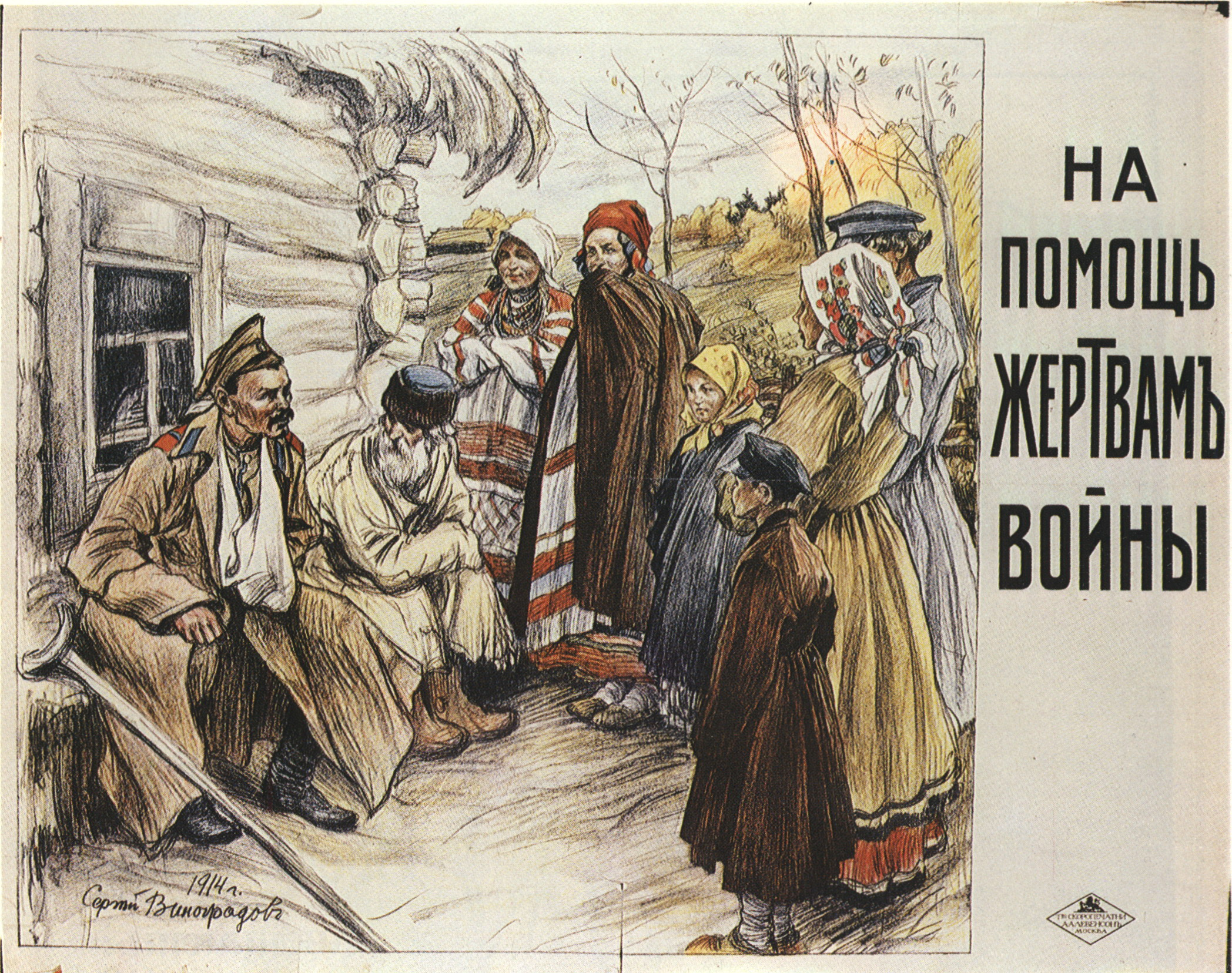 poster